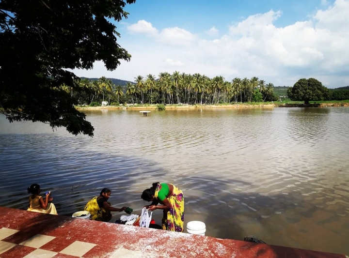 Group of women at Chitravathi River, Puttaparthi, Andhra Pradesh, India. (Chitravathi river, dry for the past 10 years, is flowing again!)